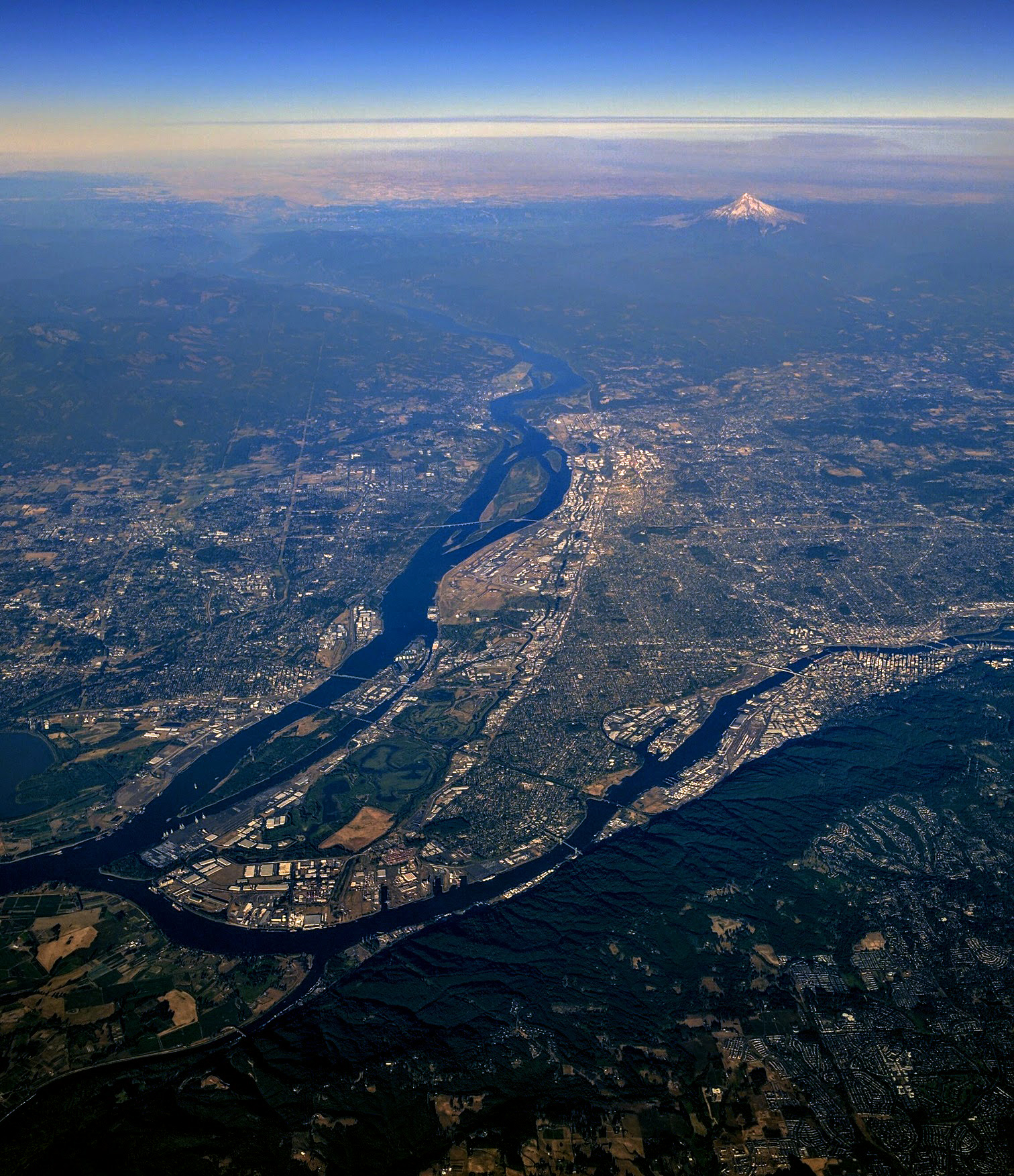 Portland OR, Vancouver WA, the Columbia River, and Mount Hood, aerial photo looking east in the evening.